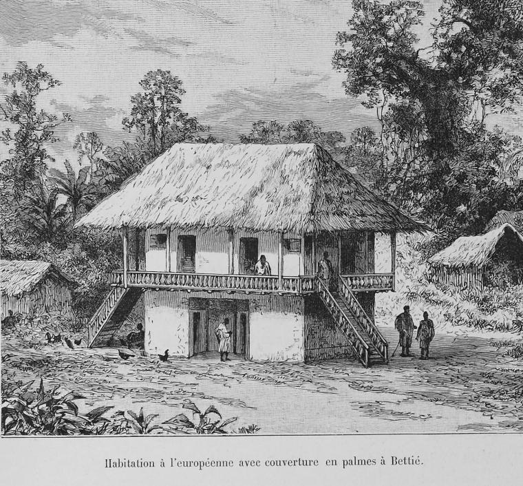 Residence with palm frond roof in Bettié, in Côte d'Ivoire.